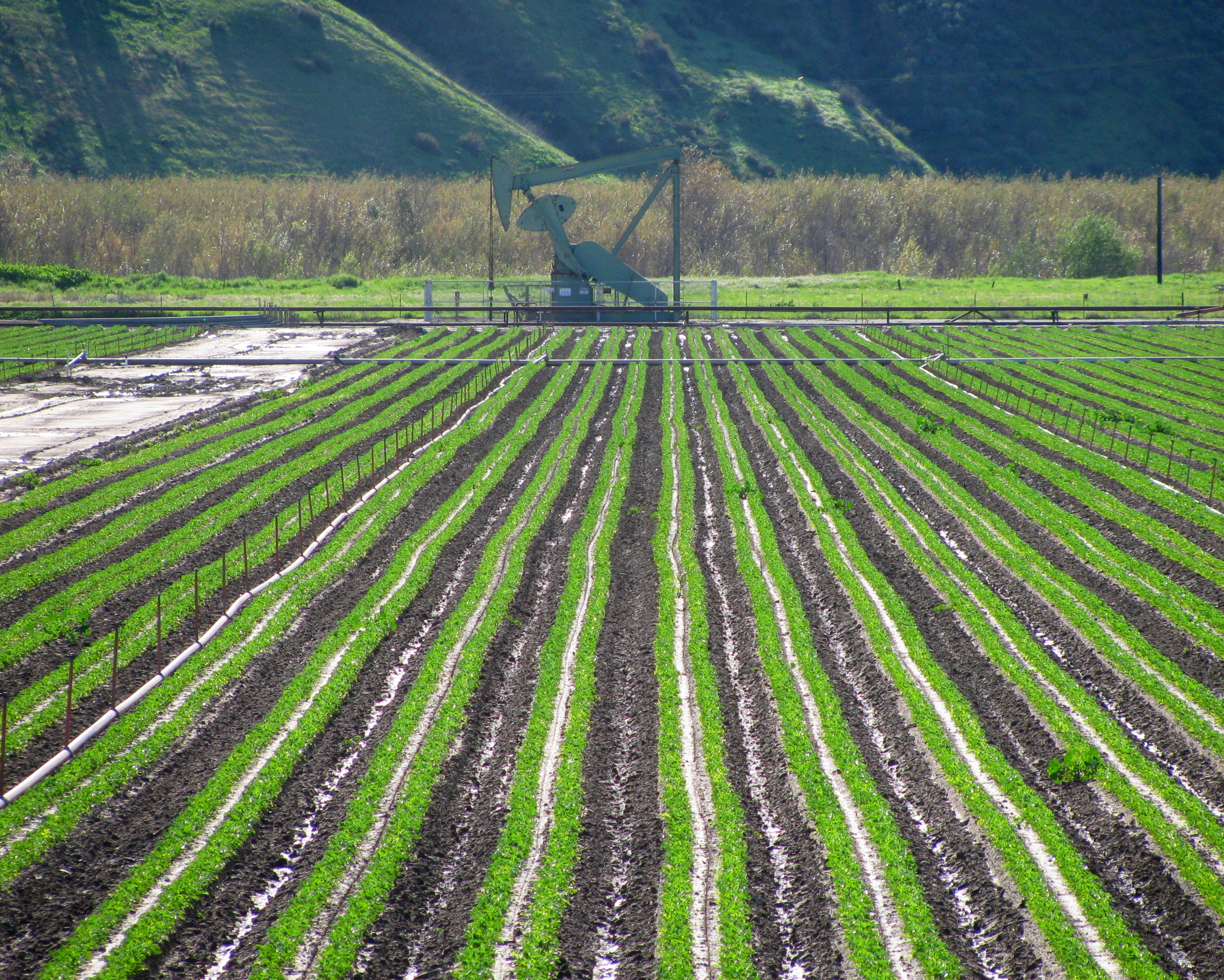 Oil well in a working agricultural field, Saticoy, CA; photo by self, GFDL/equiv